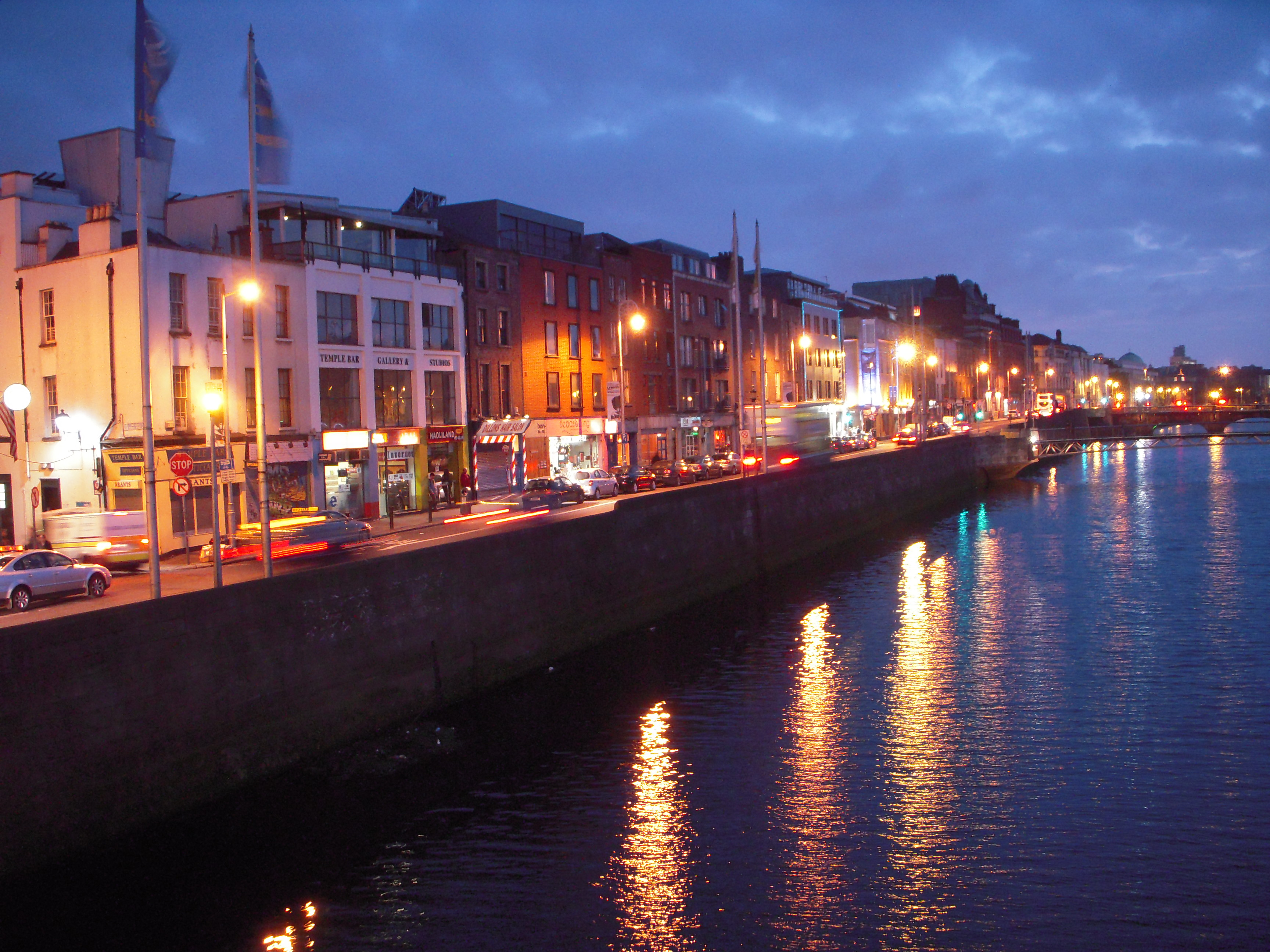 The river Liffey in Dublin in the evening. April, 26 2011.